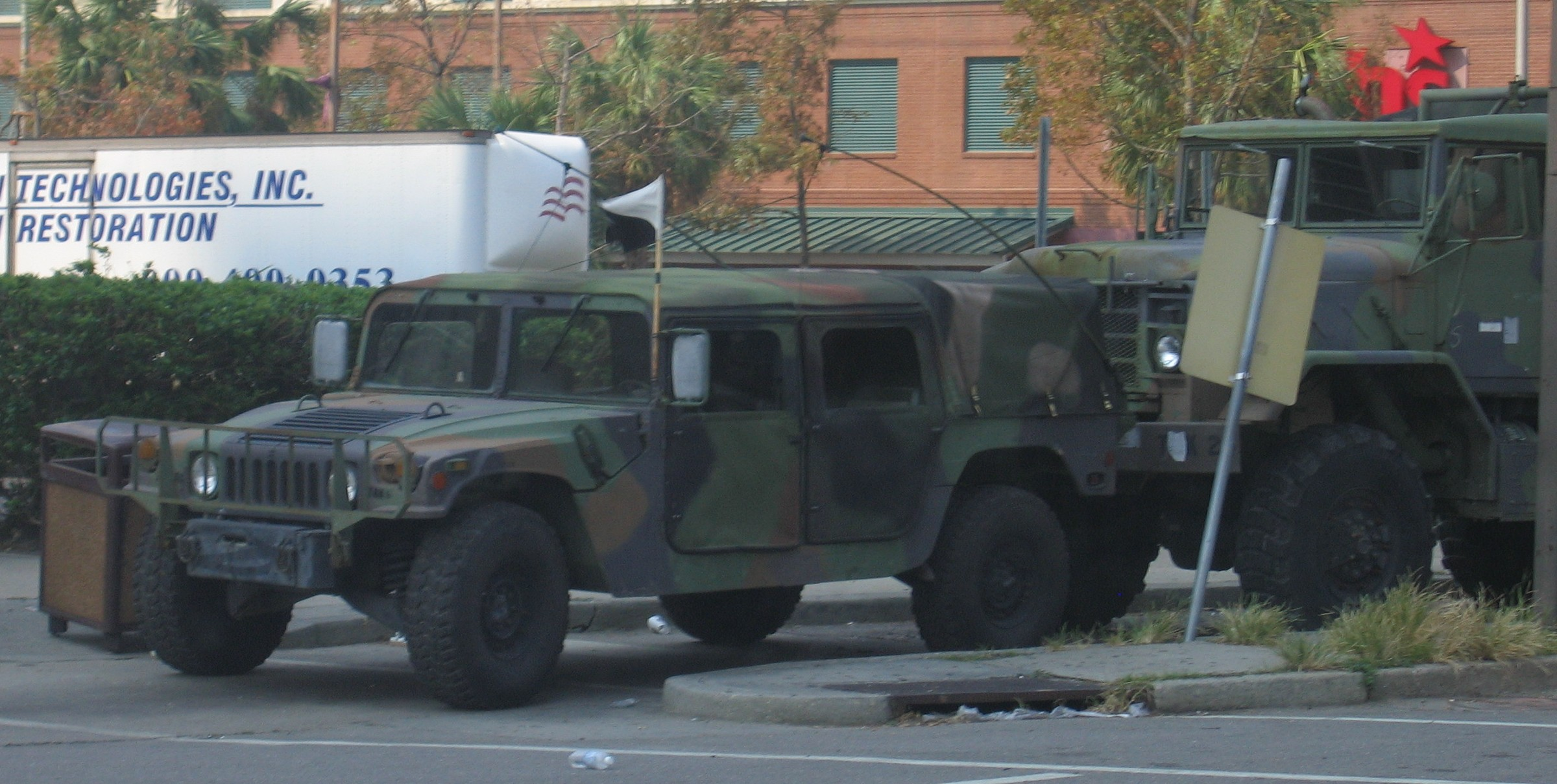 A US military humvee deployed in New Orleans after Hurricane Katrina. Taken by Nick Macdonald .